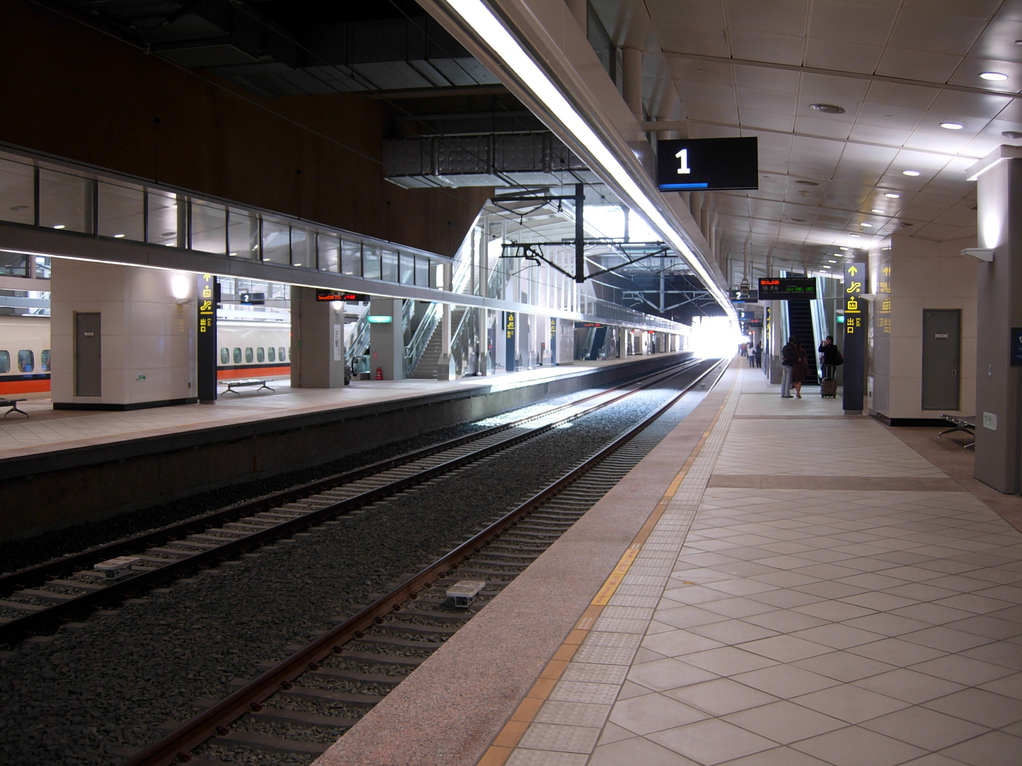 Platform 1B (right) and Platform 2 (left) of Zuoying Station, Taiwan High Speed Rail.